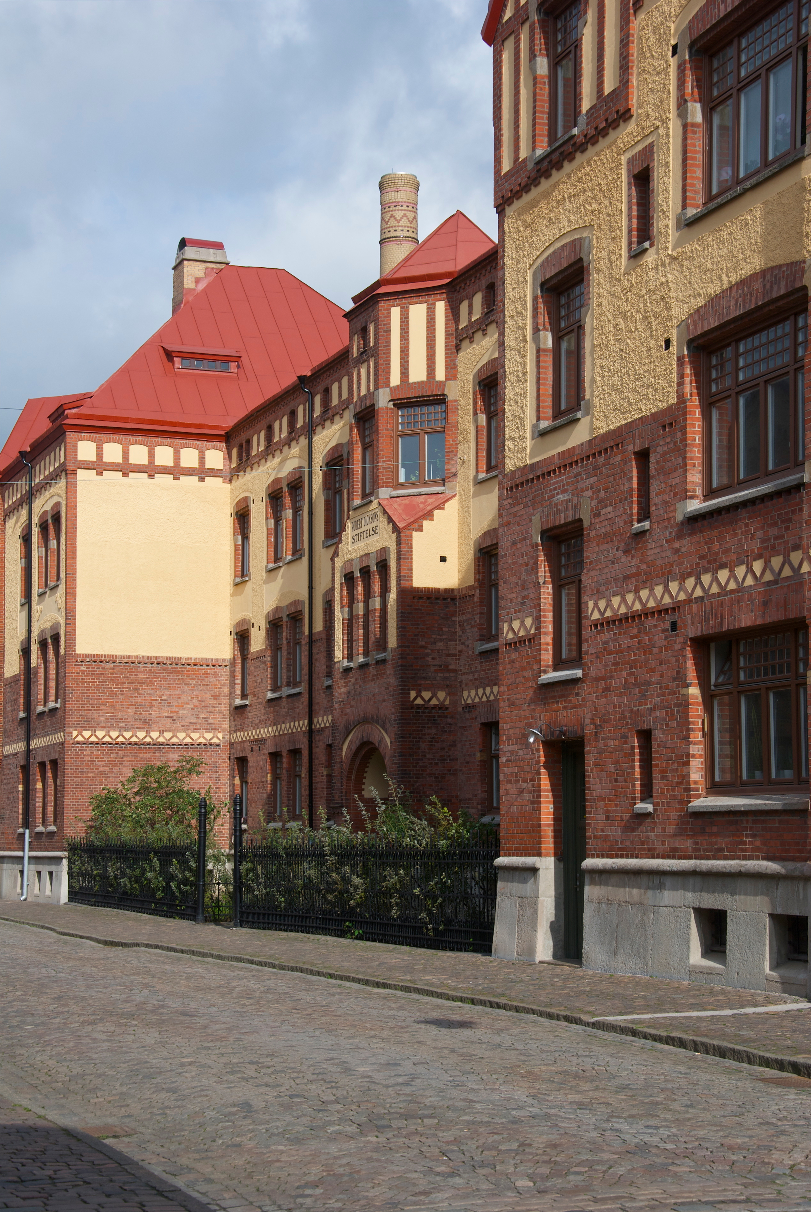 Löjtnanten is a historic city block in Haga, Gothenburg. Built 1902-04 by Robert Dickson foundation. Architect Hans Hedlund.